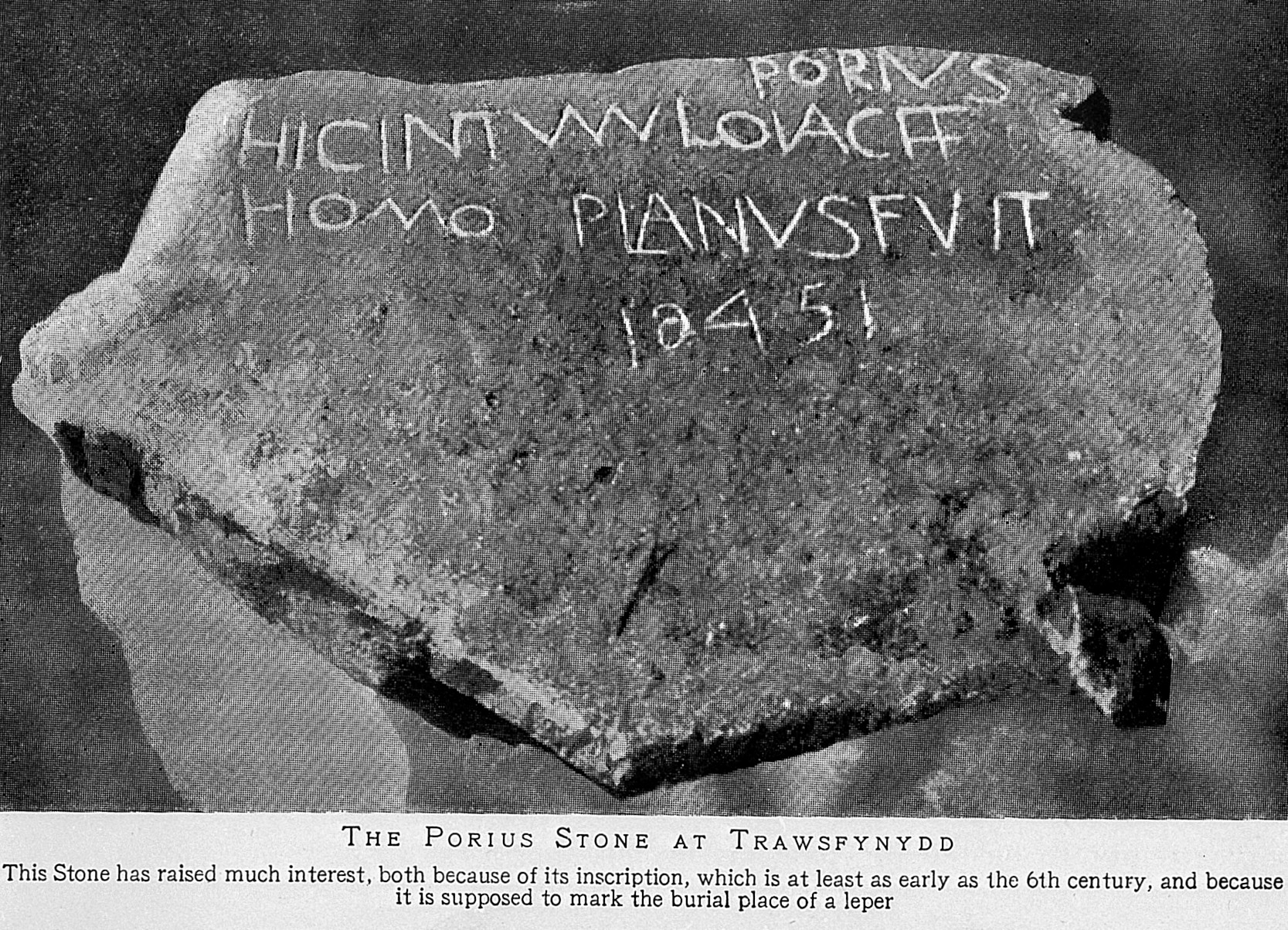 Porius stone of Trawsfyndd, 6th century. This is supposed to mark the burial place of a leper. Wellcome Images Keywords: Topography; Wales